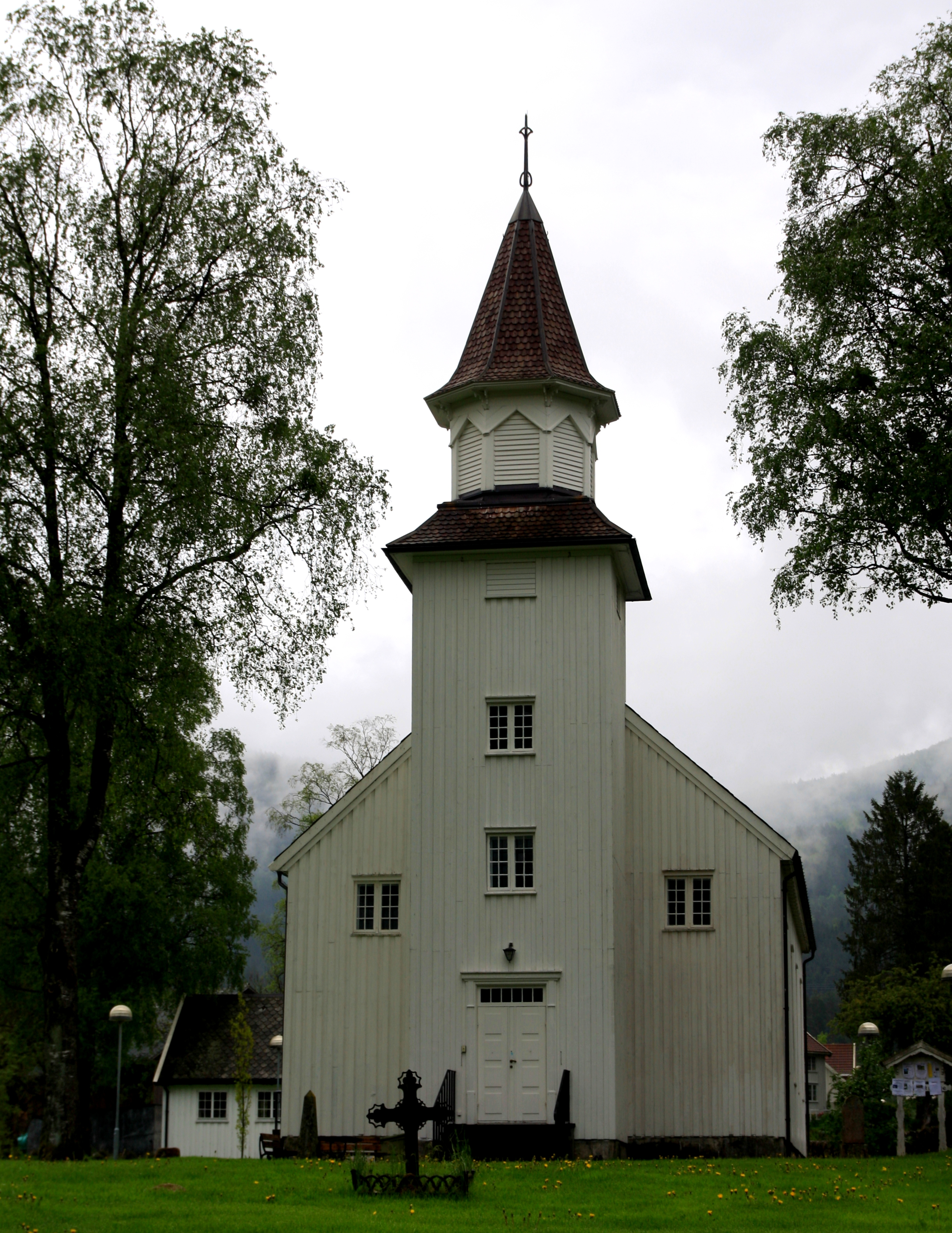 Tonstad church in Sirdal from 1852. Arch. Hans Ditlev Franciscus von Linstow.